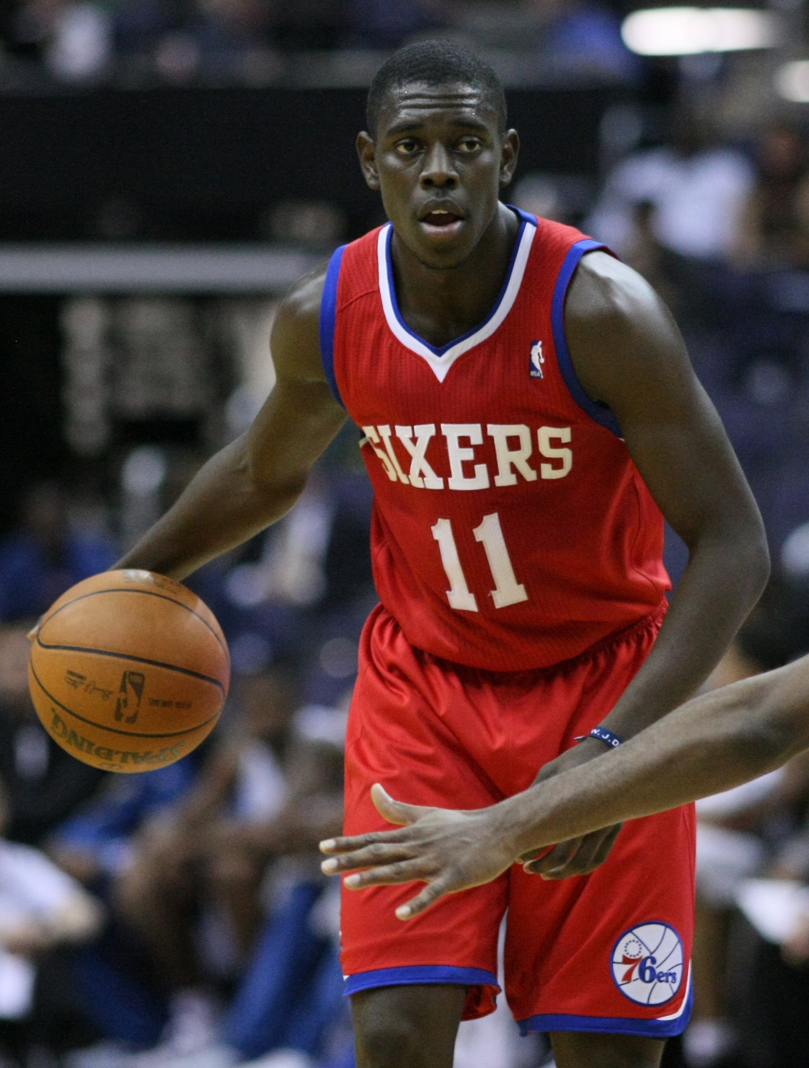 Washington Wizards v/s Philadelphia 76ers November 23, 2010